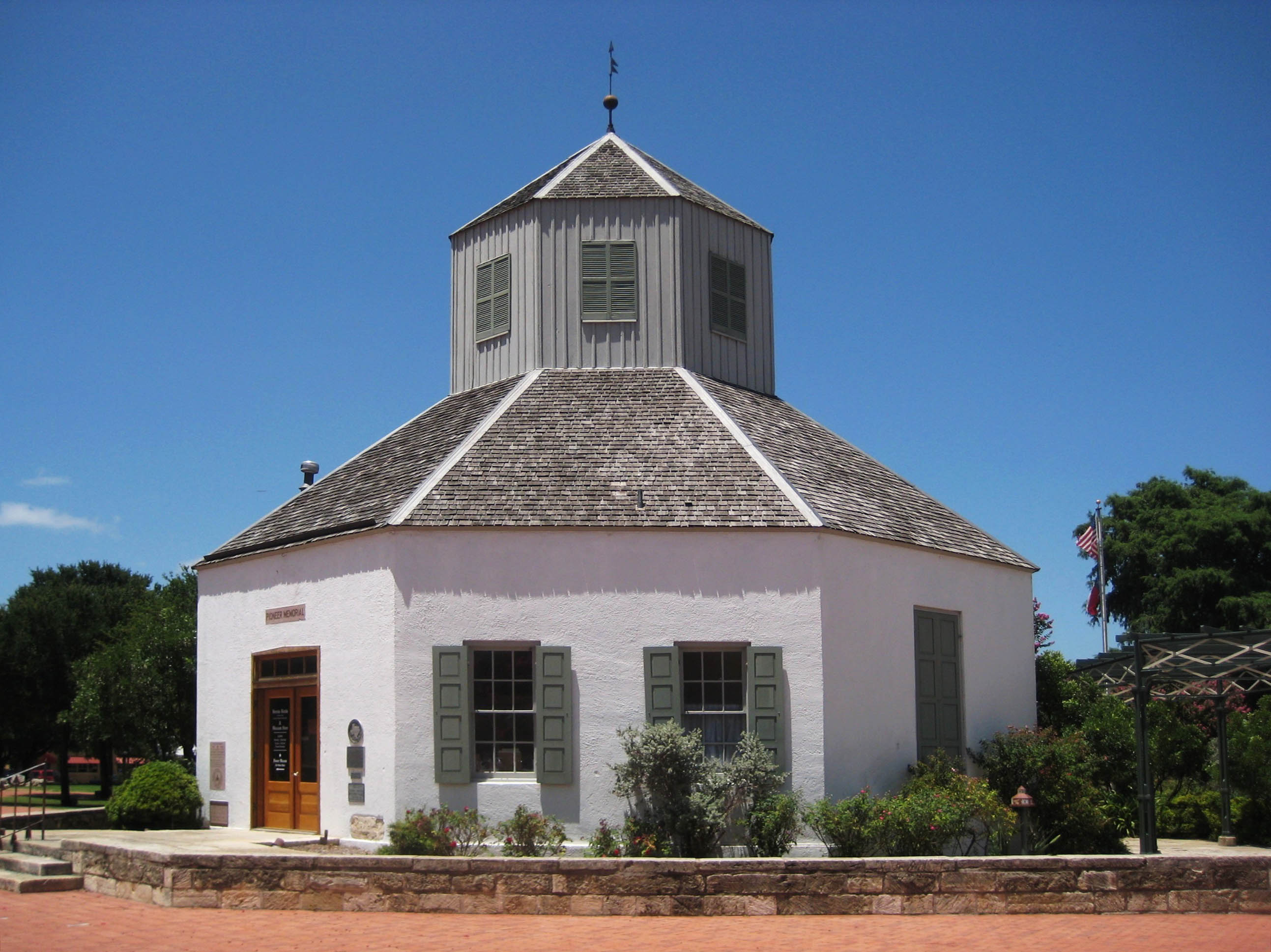 Pioneer Church in Fredericksburg, or Vereins-Kirche Museum. Designated a Recorded Texas Historic Landmark in 1967.